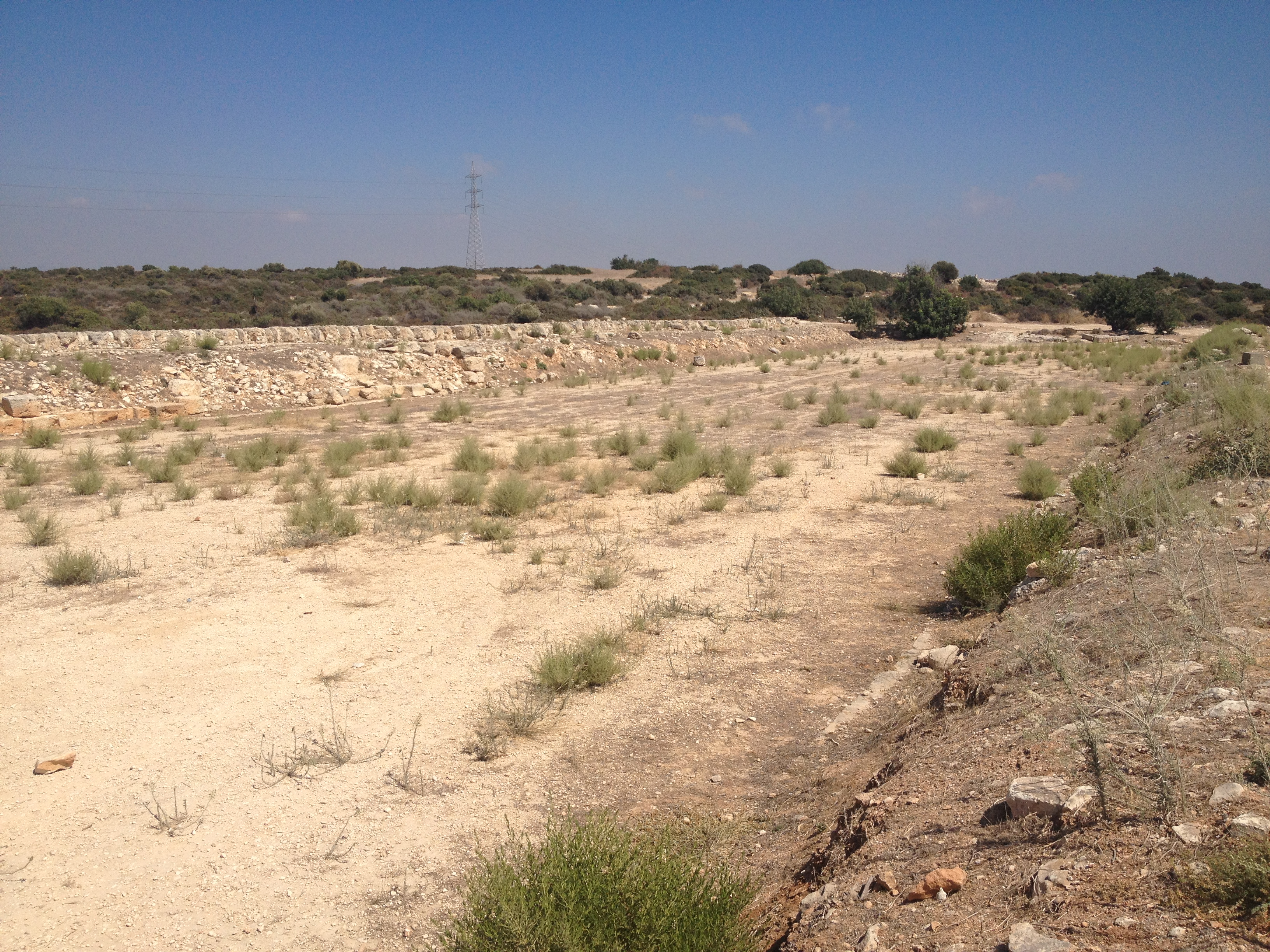 Kourion Ancient Stadium, Cyprus